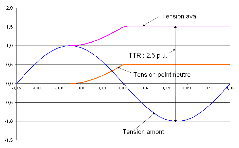 capacitive current interruption by HV circuit breaker